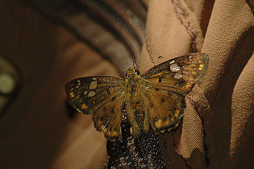 Tri-colored flat